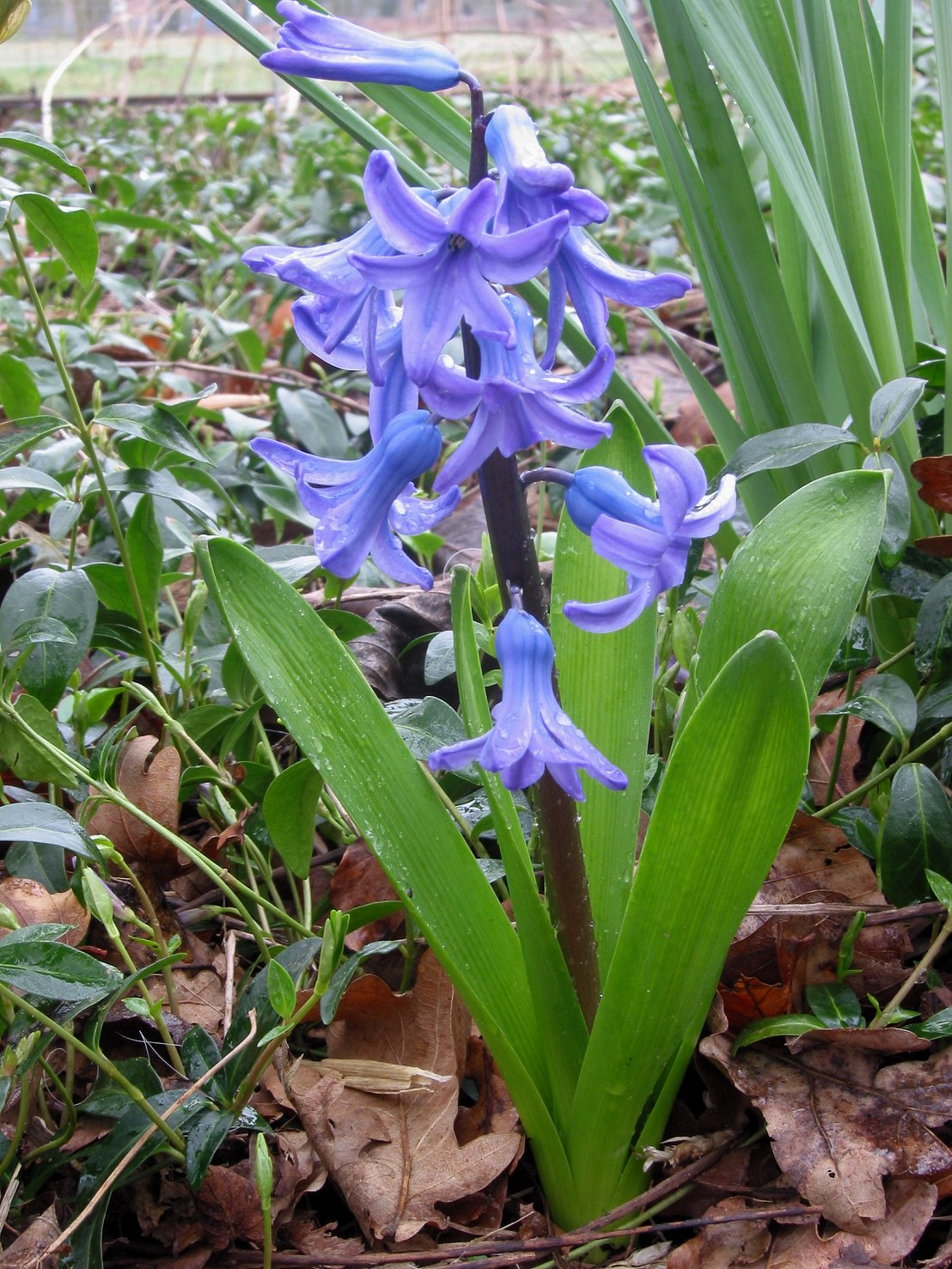 Hyacinth plant